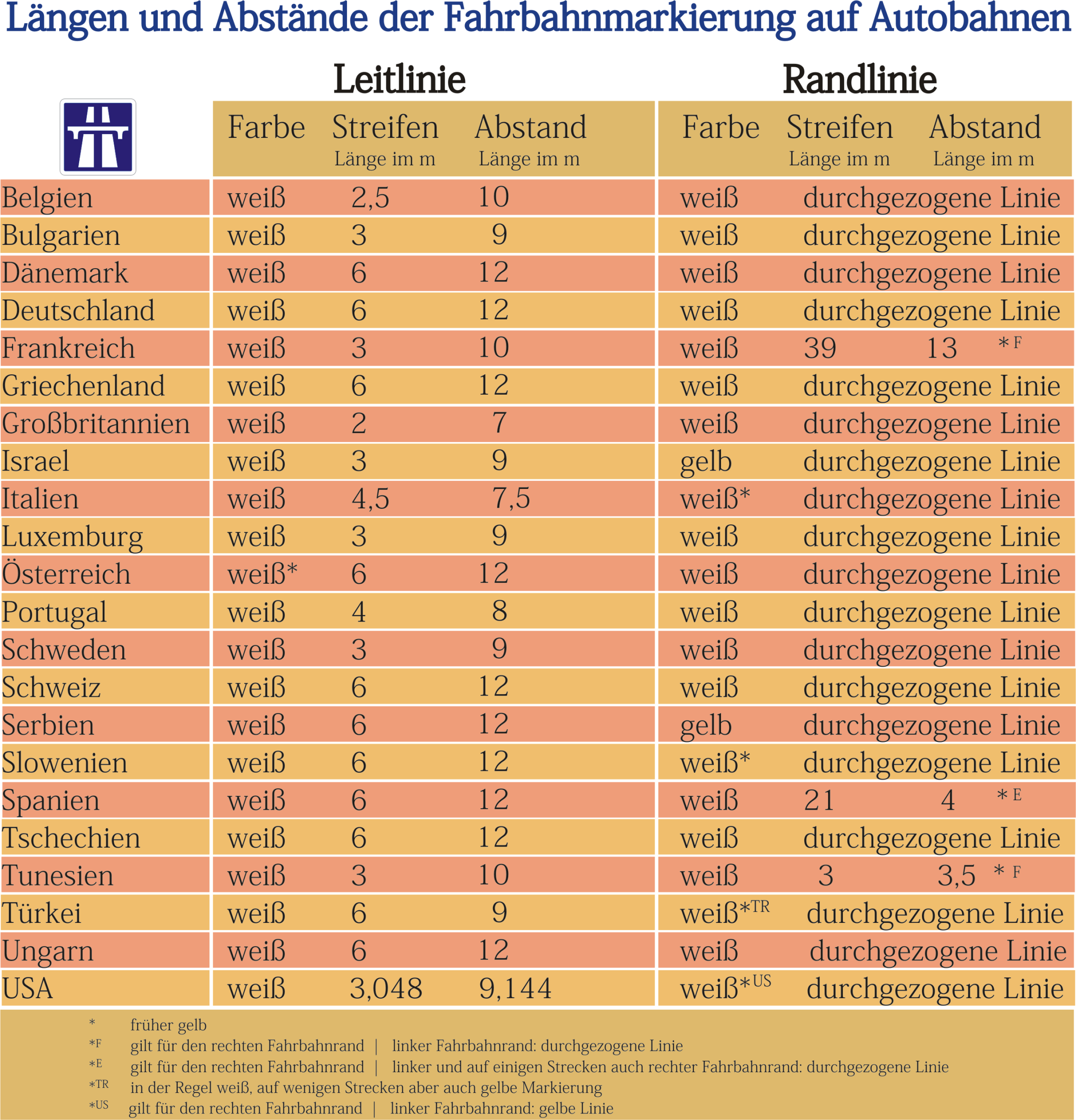 Length and gap between road markings on highways